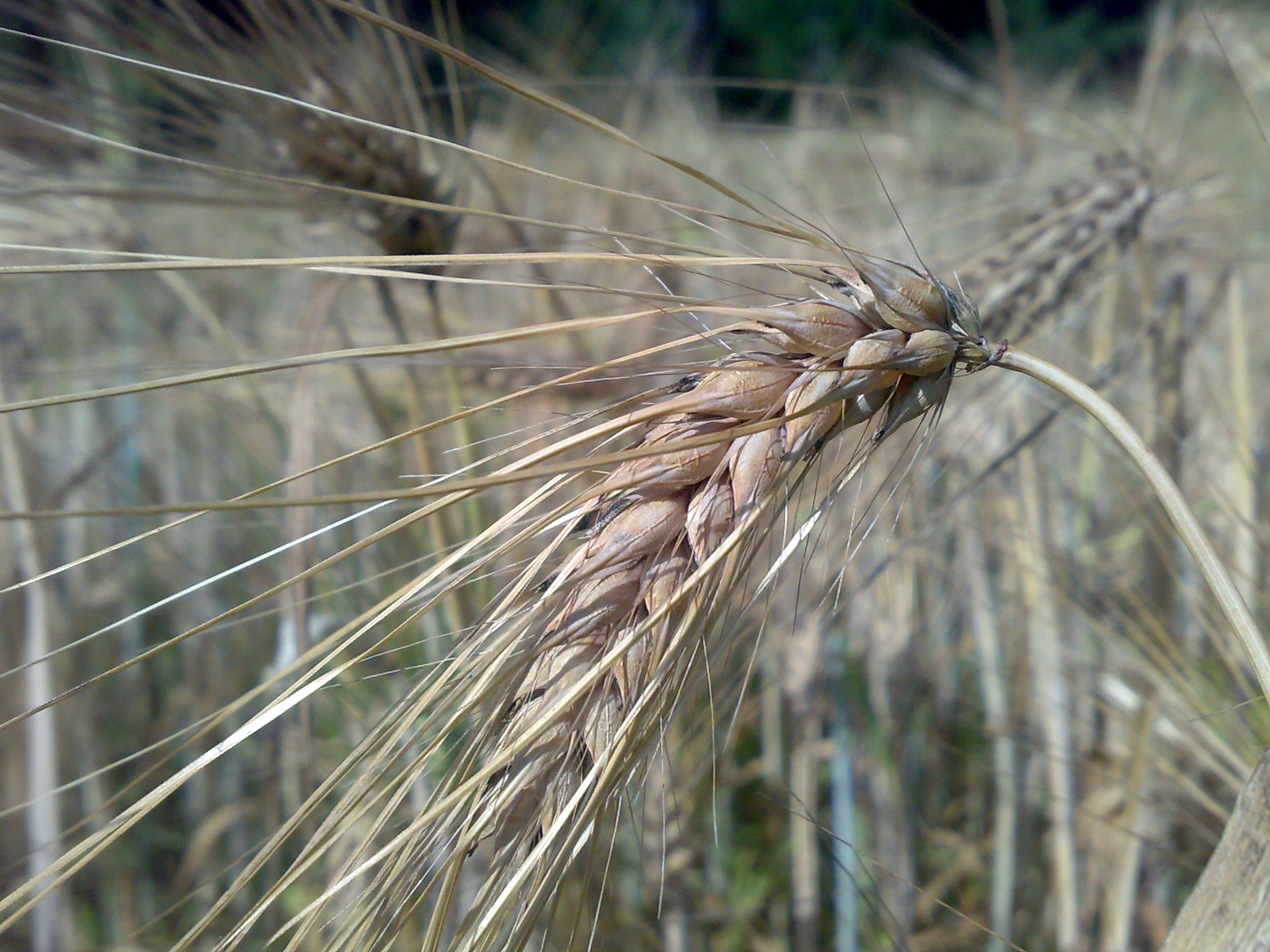 Barley, Hurum (Norway)